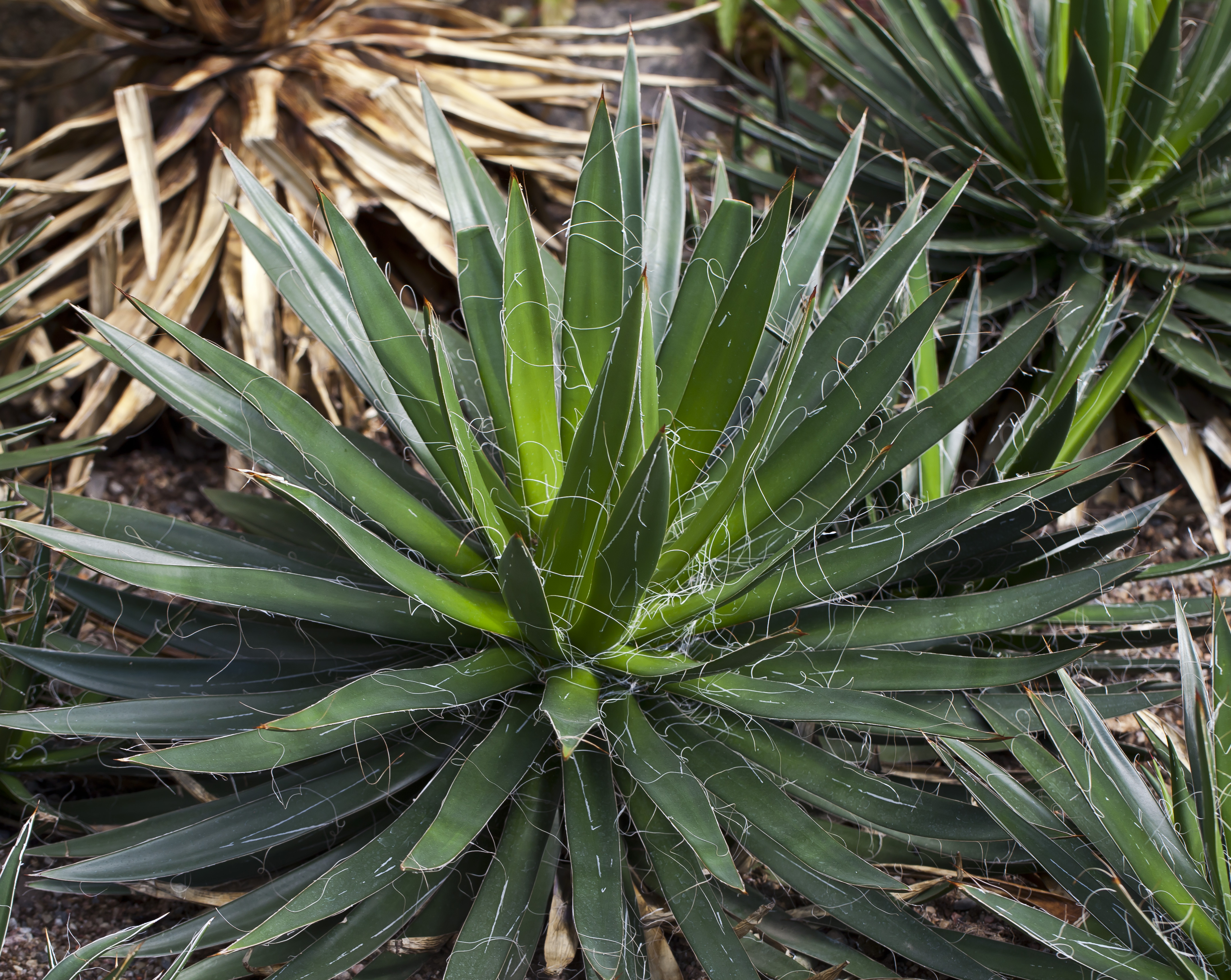 Salm-Dyck (Agave filifera), Tallinn Botanic Garden, Estonia